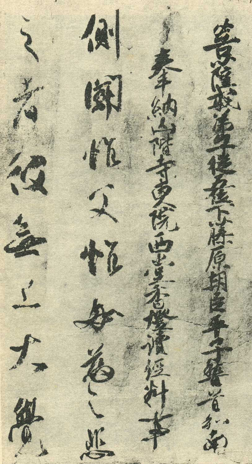 Ito Naishinnou Ganmon (1), written by Tachibana no Hayanari, stored in the Imperial collections.